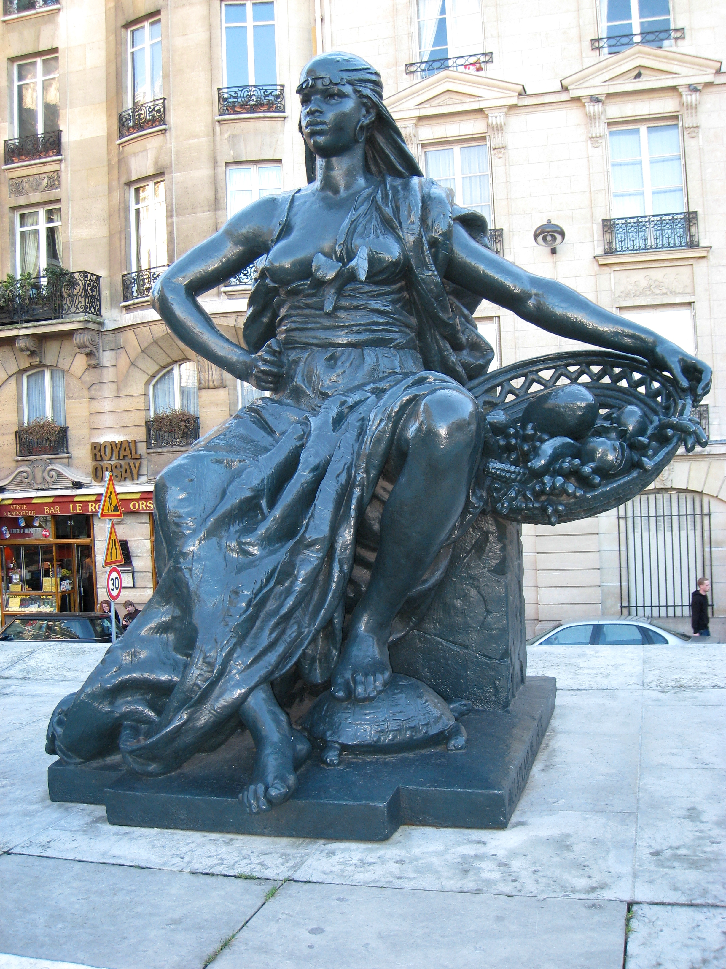 Eugène Delaplanche (1836–1891) Alternative names Eugene Delaplanche; delaplanche; e. delaplanche; eugene delaplancheDescriptionFrench sculptorDate of birth/death 28 February 1836 10 January 1891Location of birth/death Belleville (Seine) ParisAuthority control : Q1356062 VIAF: 42105000 ISNI: 0000 0000 6657 8308 ULAN: 500028375 BNF: 14792446p RKD: 211026 creator QS:P170,Q1356062 - L'Afrique (1878) - parvis du Musée d'Orsay, Paris, France.